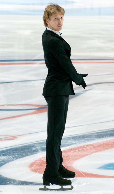 2011 Cup of Russia, short program.